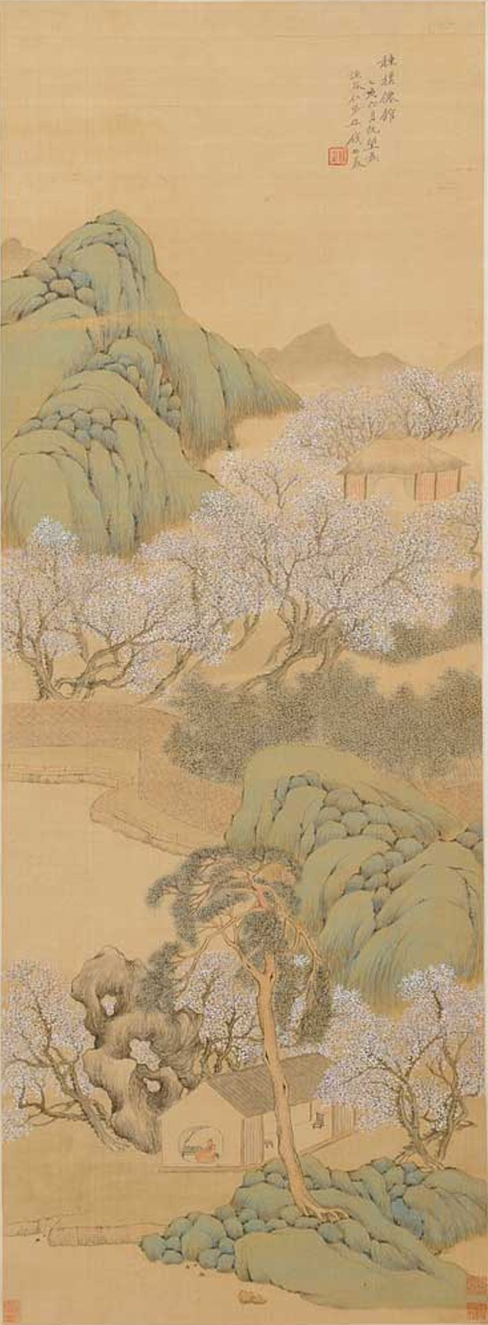 Tang Yifen (1778-1853),1 of 10 paintings from Lighthearted Paintings Inspired by Old Masters, 1849, Honolulu Museum of Art